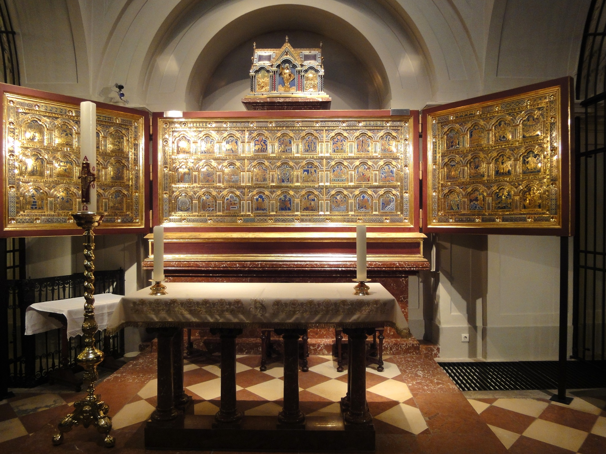 Altar at Klosterneuburg ((by N. Verdun), Front, 12th Century, Monastery of Klosterneuburg, Lower Austria